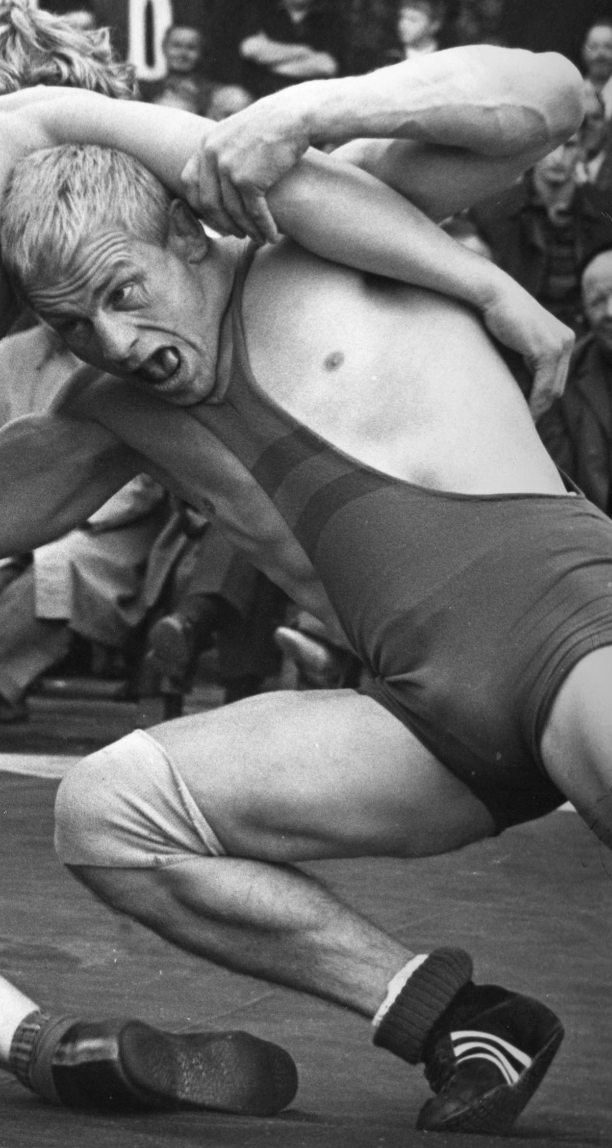 Eero Tapio at the 1963 National Championships